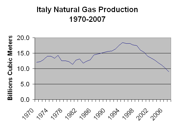 Italy's gas production data came from BP Statistical Review of World Energy June 2008 [1] I created the graph from the data.